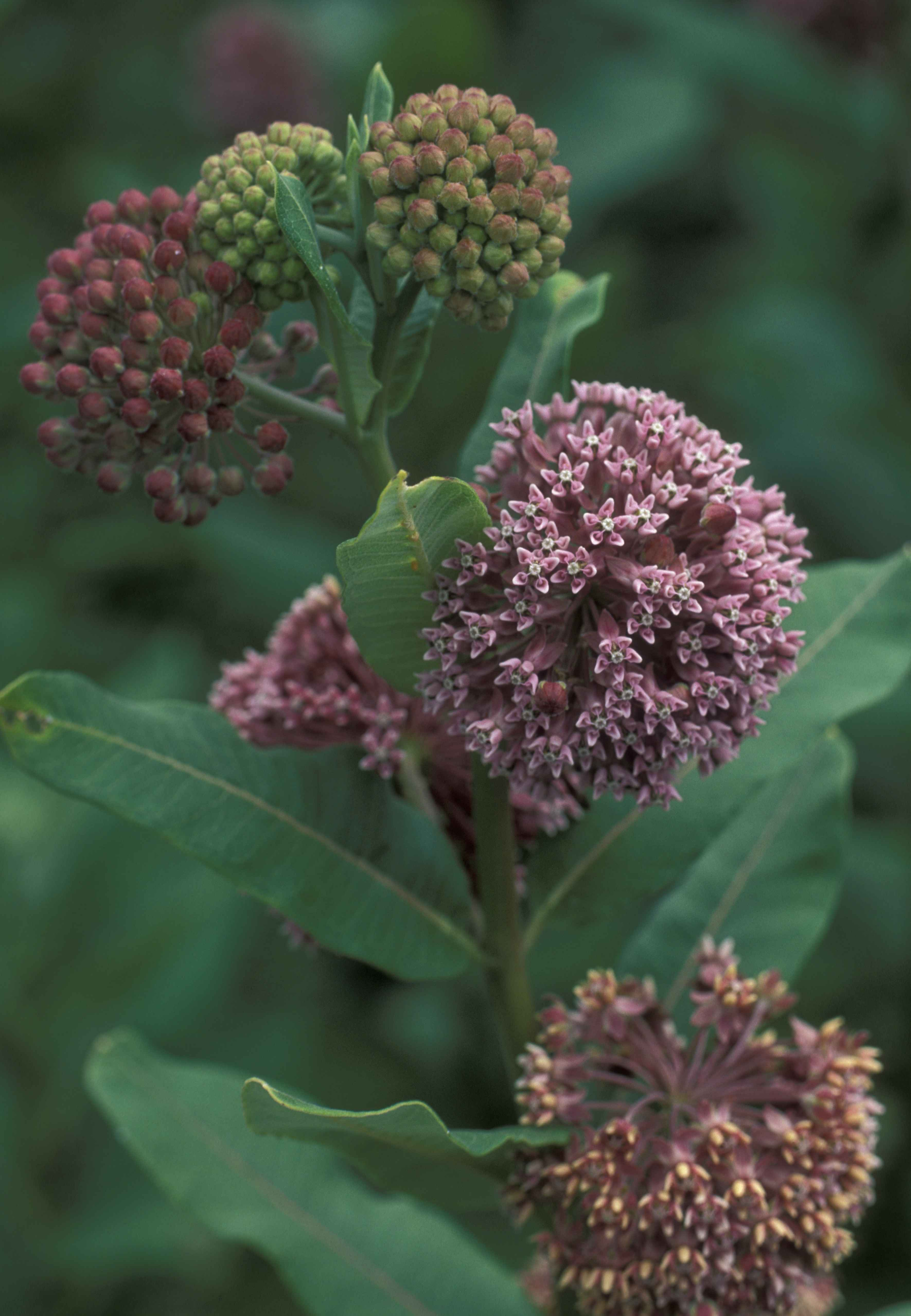 Image title: Pink flowers of a common milkweed plant asclepias syriaca Image from Public domain images website